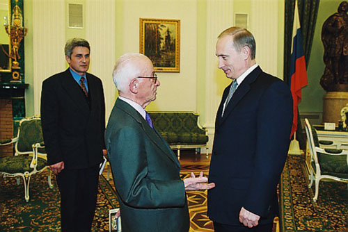 THE KREMLIN, MOSCOW. Interview with Greek media. President Putin with editor of the Vima newspaper Efstathios Efstathiadis.